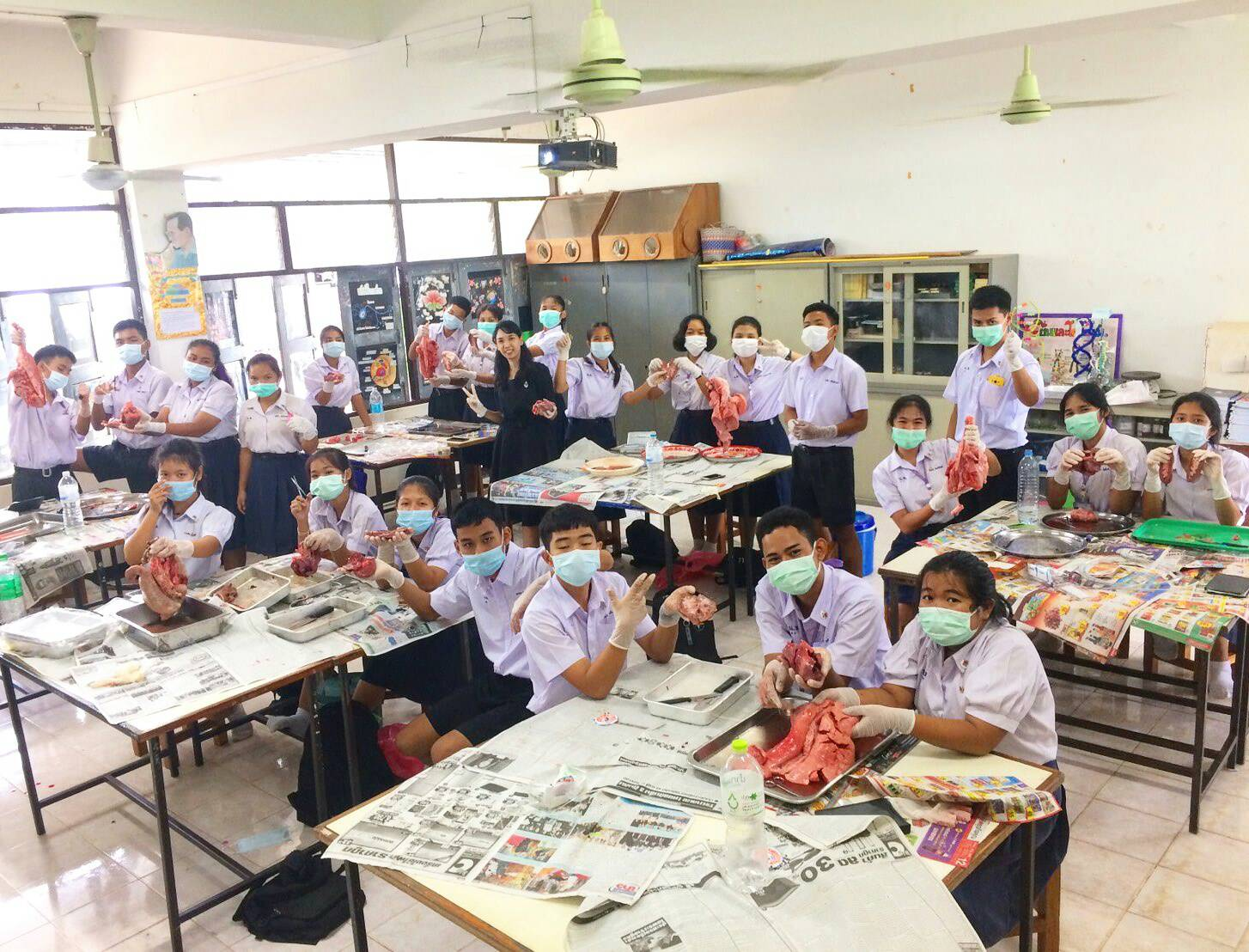 Young scientist in my classroom